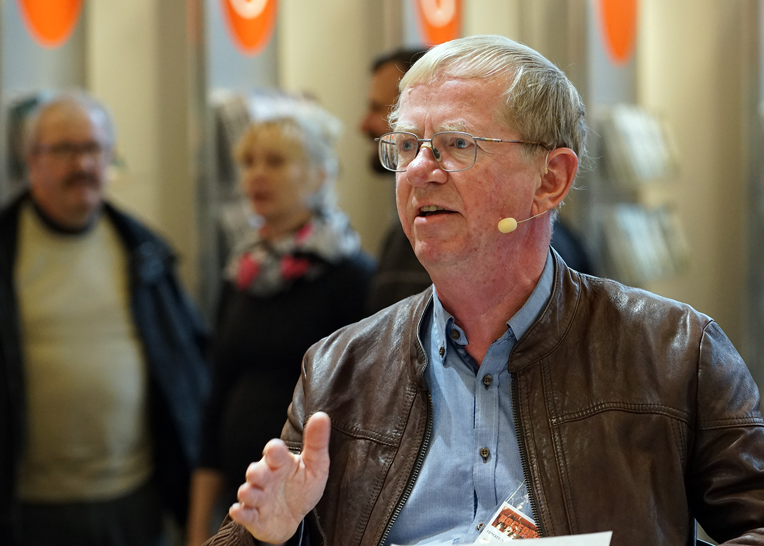 John T. Lauridsen - Danish writer, historian and librarian at the Copenhagen Book Fair "BogForum 2015", Copenhagen, Denmark